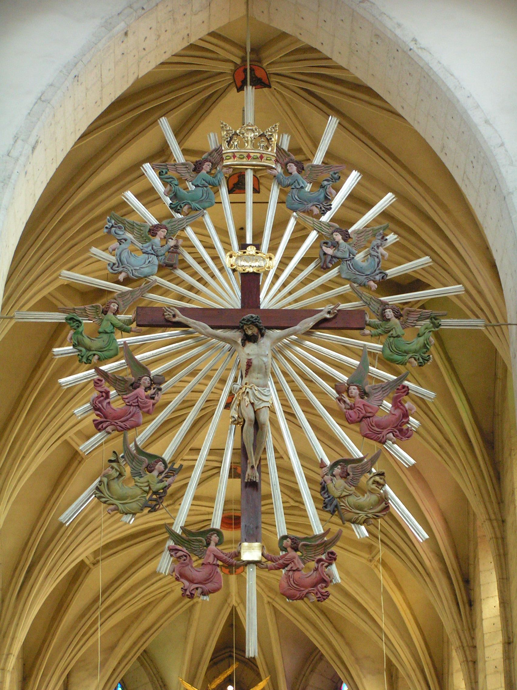 Church of St. Catherine in Kraków, Poland - crucifix from 17th century + angels from 20th century by Karol Muszkiet